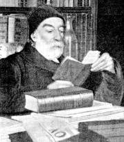 French philosopher Charles Renouvier (1815-1903)